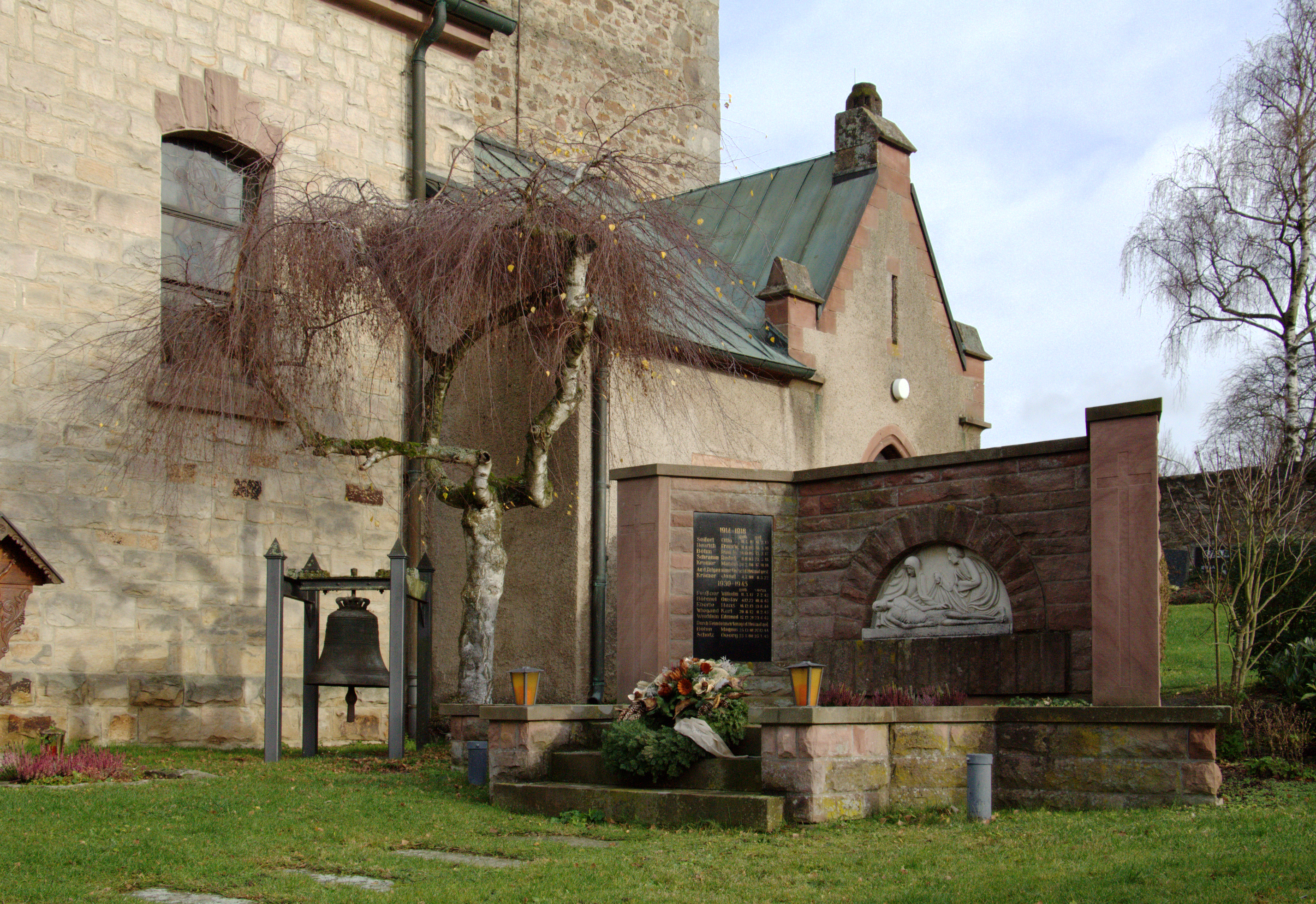 Memorial, Catholic Church (St. Kilian) in Ried, Ebersburg , Hesse, Germany